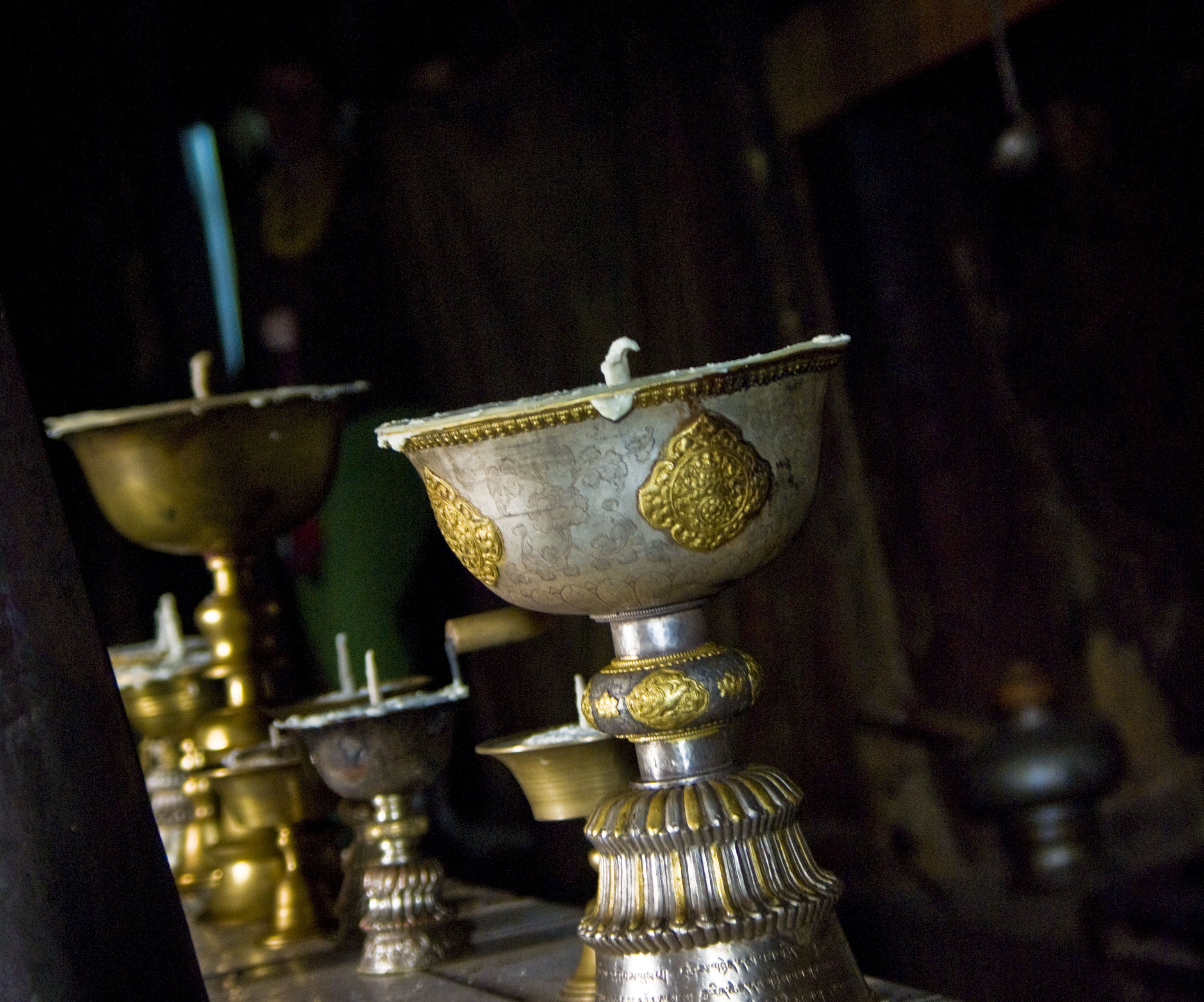 Songzanlin Monastery